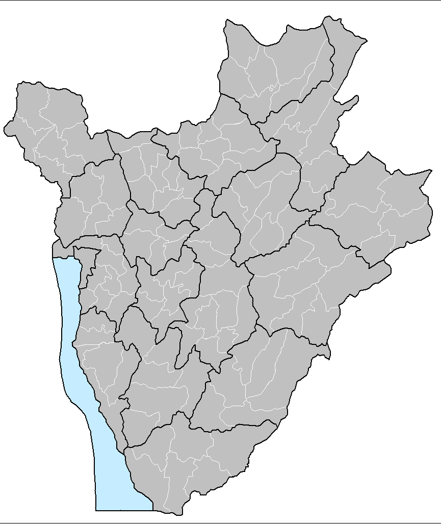 This map has been uploaded by Electionworld from to enable the Wikimedia Atlas of the World . Original uploader to was Rarelibra, known as Rarelibra at . Electionworld is not the creator of this map. Licensing information is below. Map of the communes of Burundi. Created by Rarelibra 13:52, 31 March 2006 (UTC) for public domain use. Created using MapInfo Professional v7.5 and various mapping resources.